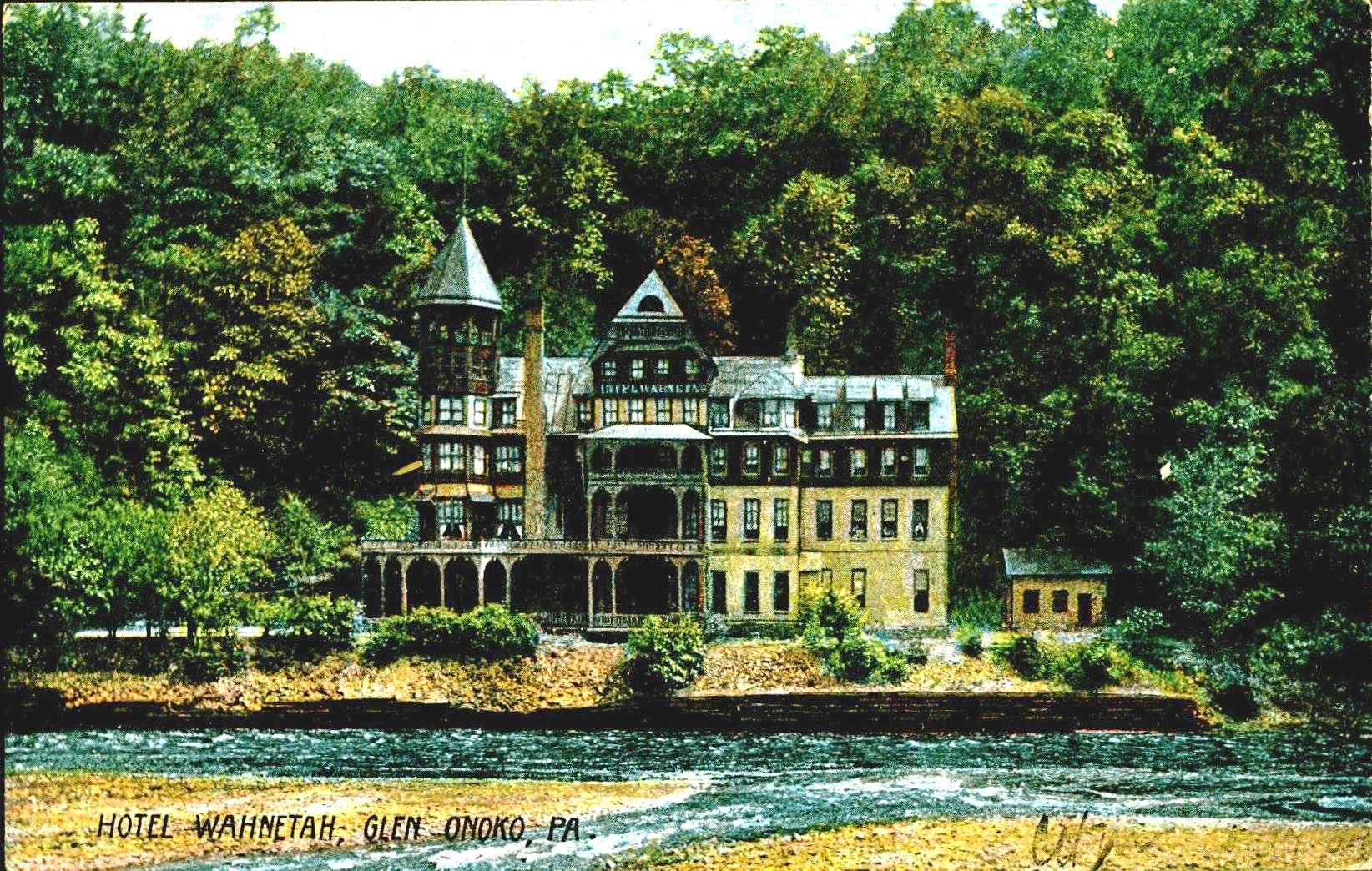 Hotel Wahnetah, Glen Onoko